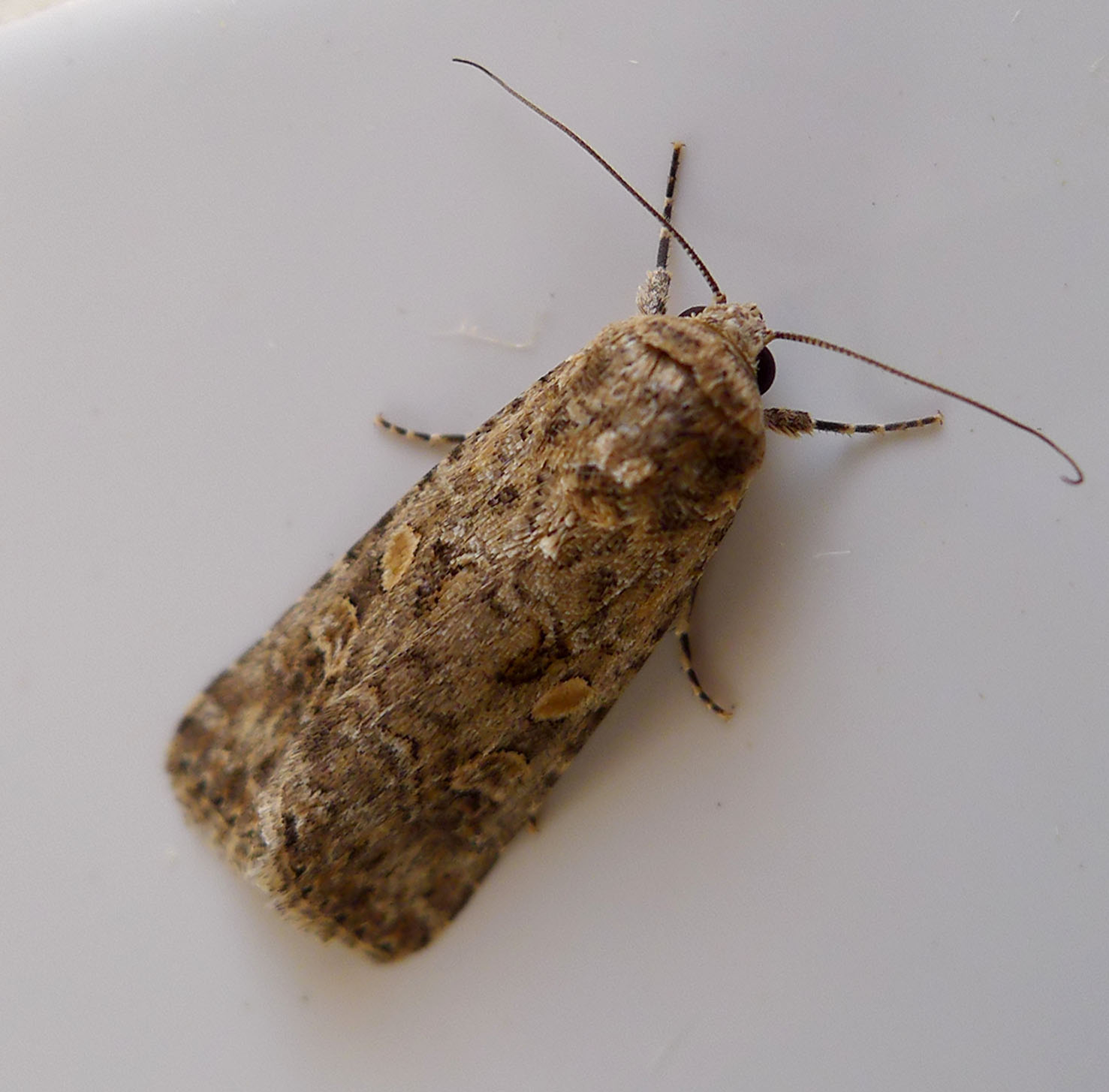 Small Mottled Willow. Spodoptera exigua